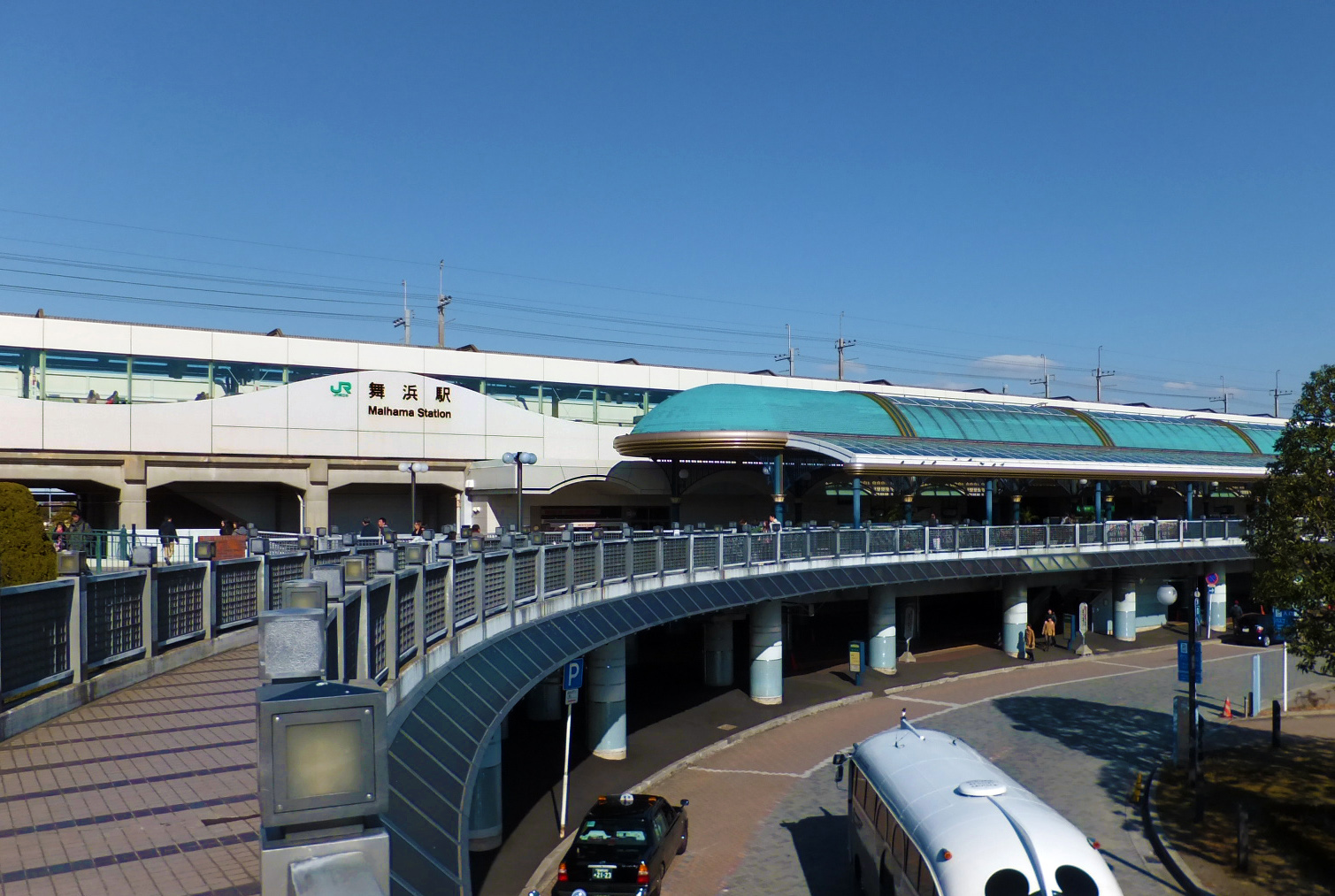 "Maihama Station" on the Keiyo Line, in the city of Urayasu, Japan